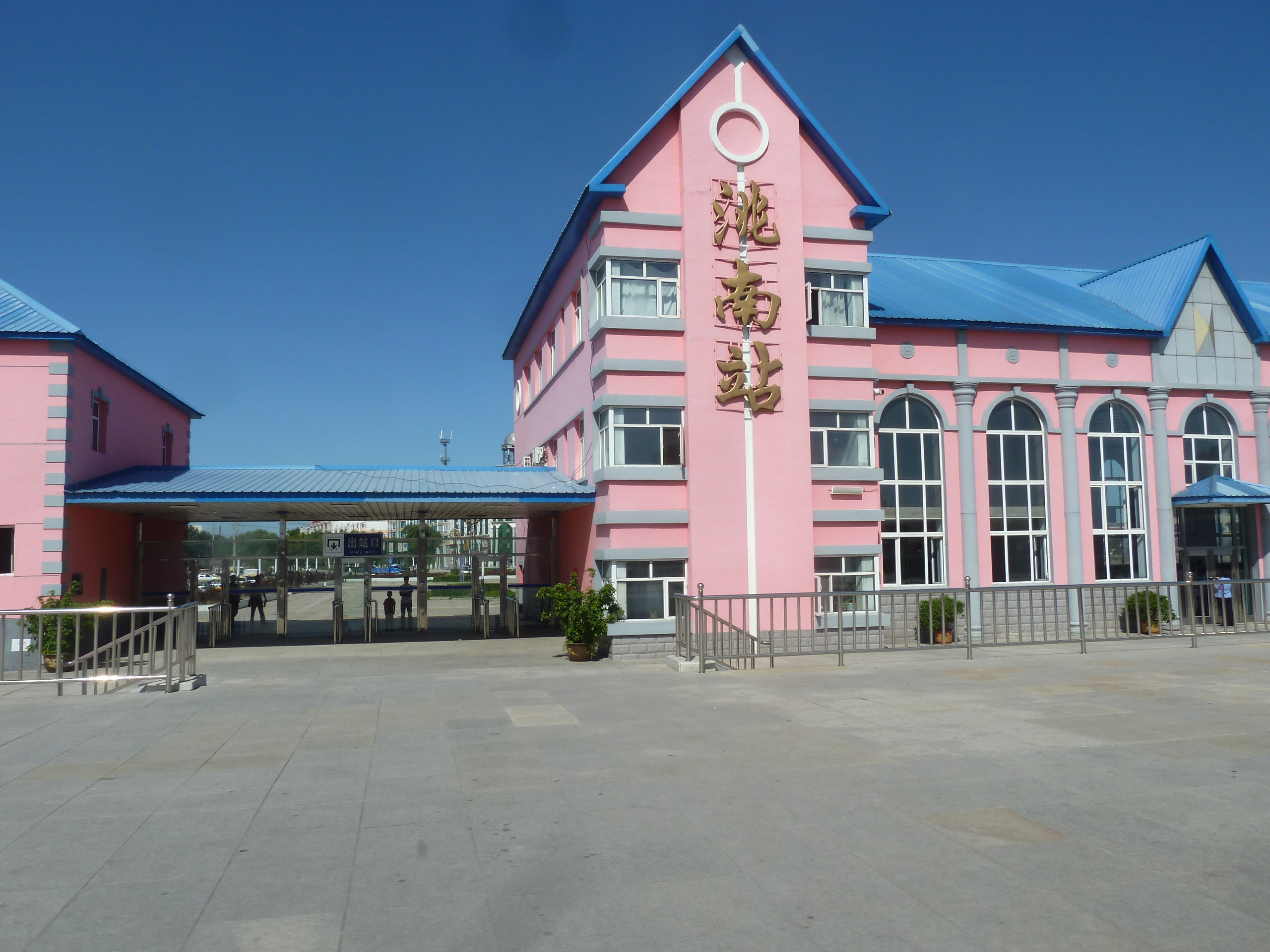 Taonan Station